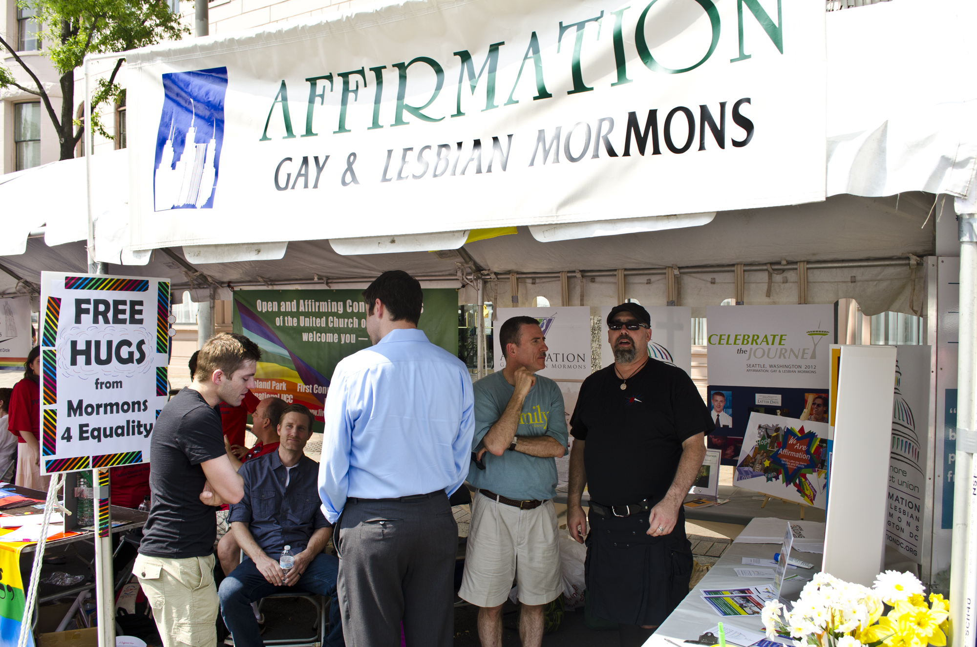 Affirmation: Gay & Lesbian Mormons booth at the 2013 Washington D.C. Capital Pride street festival, on 2013-06-09. Booth is displaying a sign stating "Free hugs from Mormons 4 Equality".